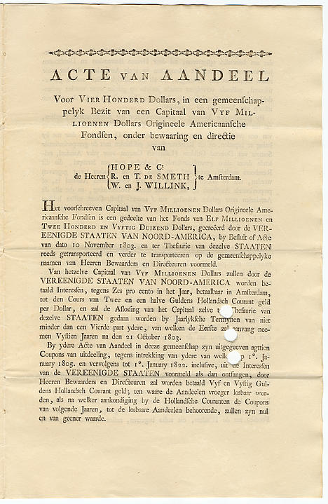 Copy of share issued to finance the Louisiana Purchase in Amsterdam in 1804. Shares were issued in Amsterdam and London by the firm Hope & Co.